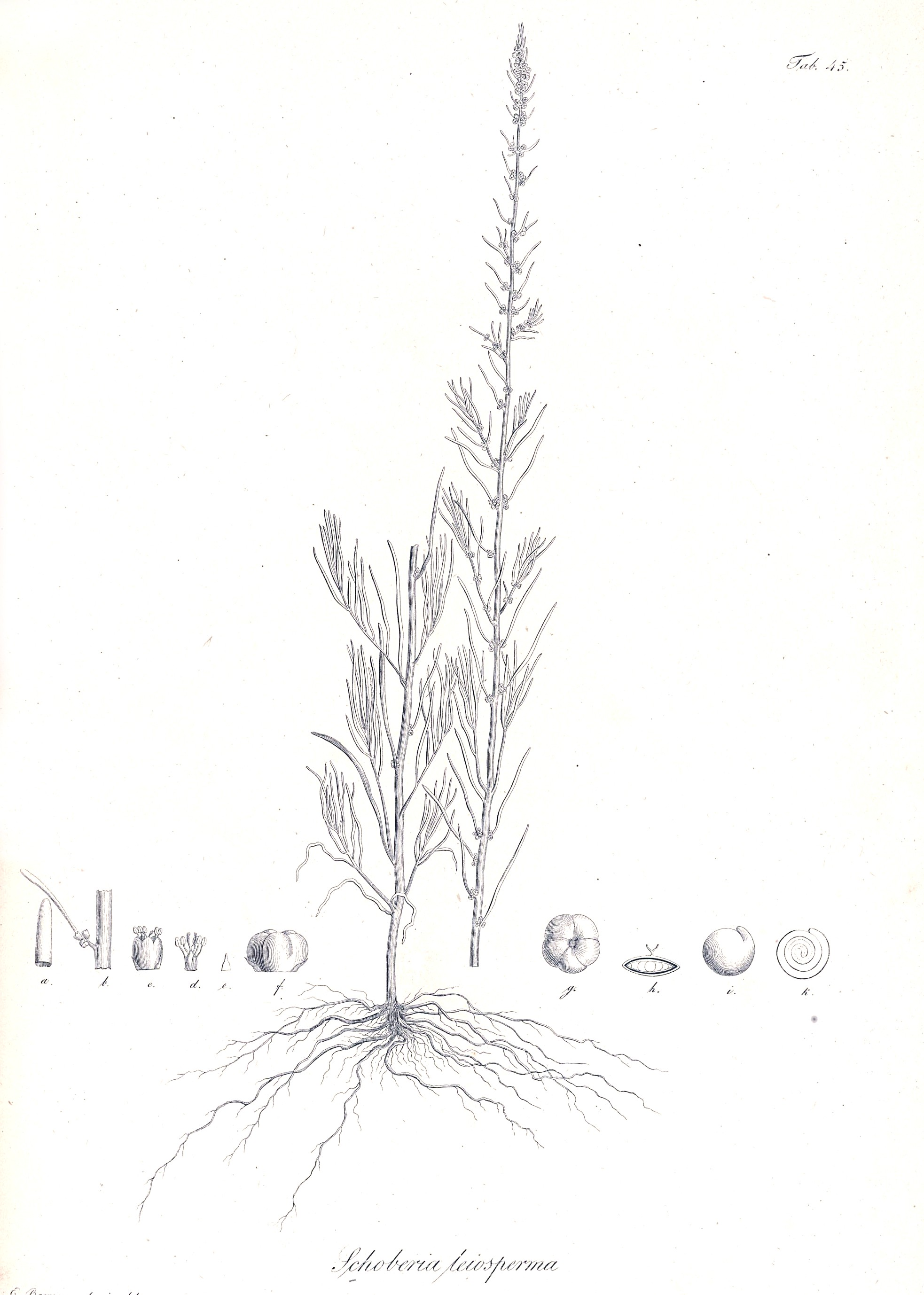 Schoberia leiosperma C.A.Mey. = Suaeda leiosperma (C.A.Mey.) Moq., Syn. of Suaeda altissima (L.) Pall. - Illustration from: Ledebour, C.F.v. 1829. Icones plantarum novarum vel imperfecte cognitarum floram Rossicam, imprimis Altaicam, illustrantes 1: tab. 45.